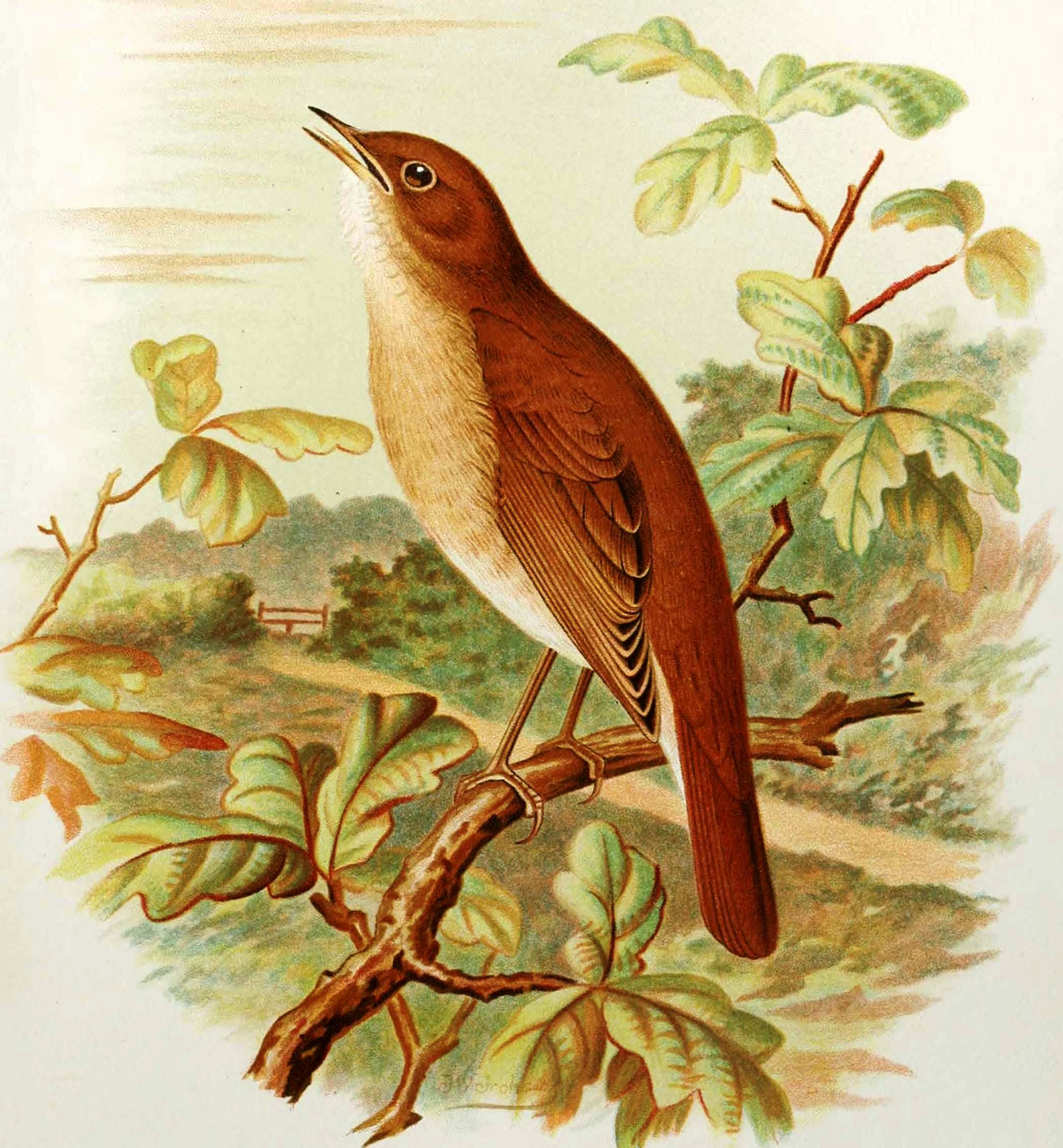 Luscinia megarhynchos. Arthur G. Butler